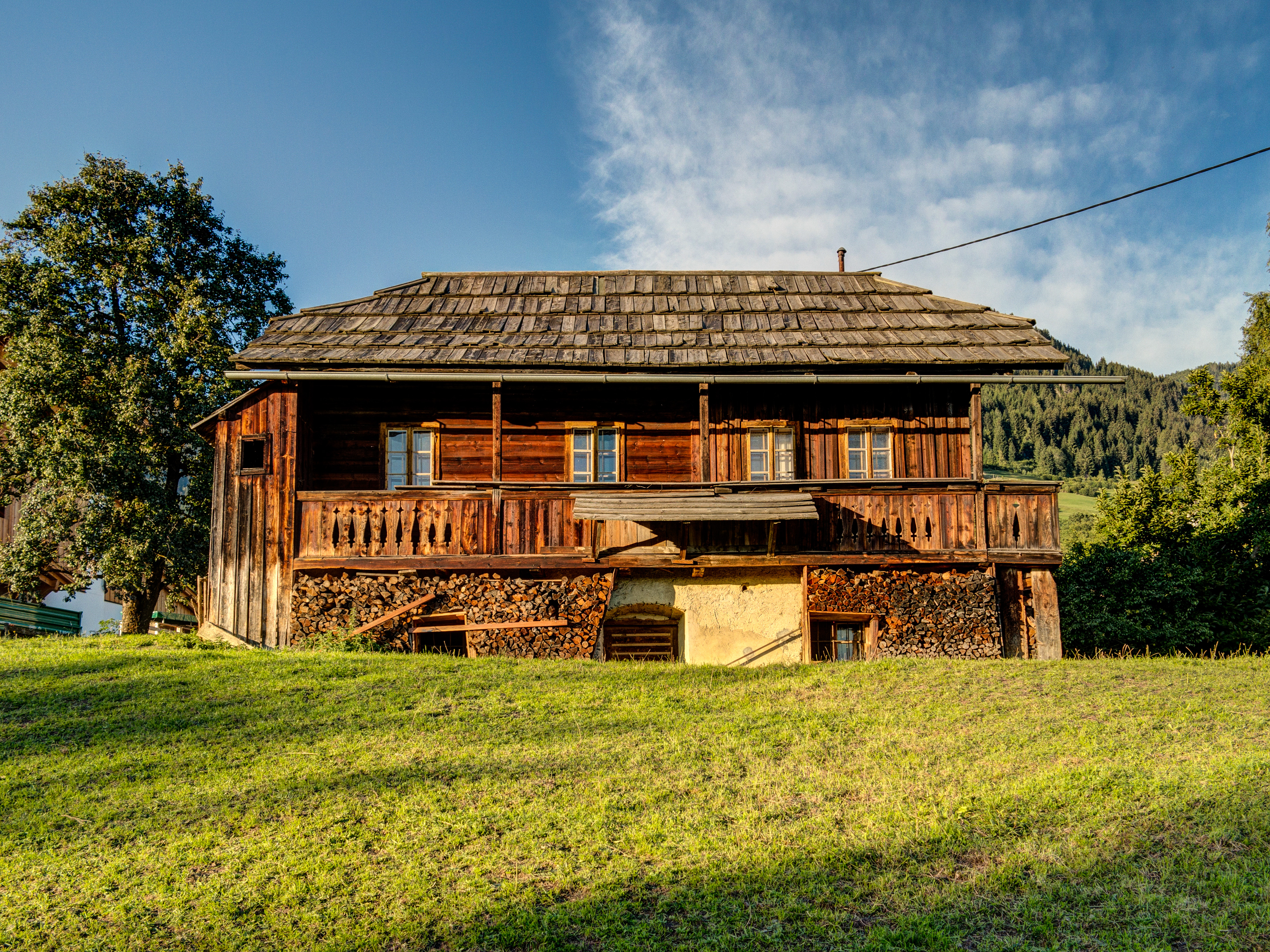 Old farmbuilding (farmer's life interest) in Obermillstatt near Lake Millstatt (Millstätter See), district Spittal an der Drau in Carinthia / Austria / EU. Freedom of Panorama This picture of an otherwise copyrighted work may be distributed under the conditions of § 54 (1) Z. 5 of the Austrian copyright law which allows to reproduce, distribute, and publish architectural works of an actual building or other works of visual arts which were created to permanently remain at a public place. Note: Due to the principle of Lex loci protectionis, this applies only to reuse of this picture in Austria. Reuse in other countries is subject to local law. Further information can be found on Commons and in German Wikipedia.